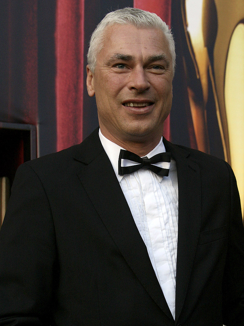 Anton „Toni“ Polster at the Romy TV awards (Hofburg Imperial Palace in Vienna)